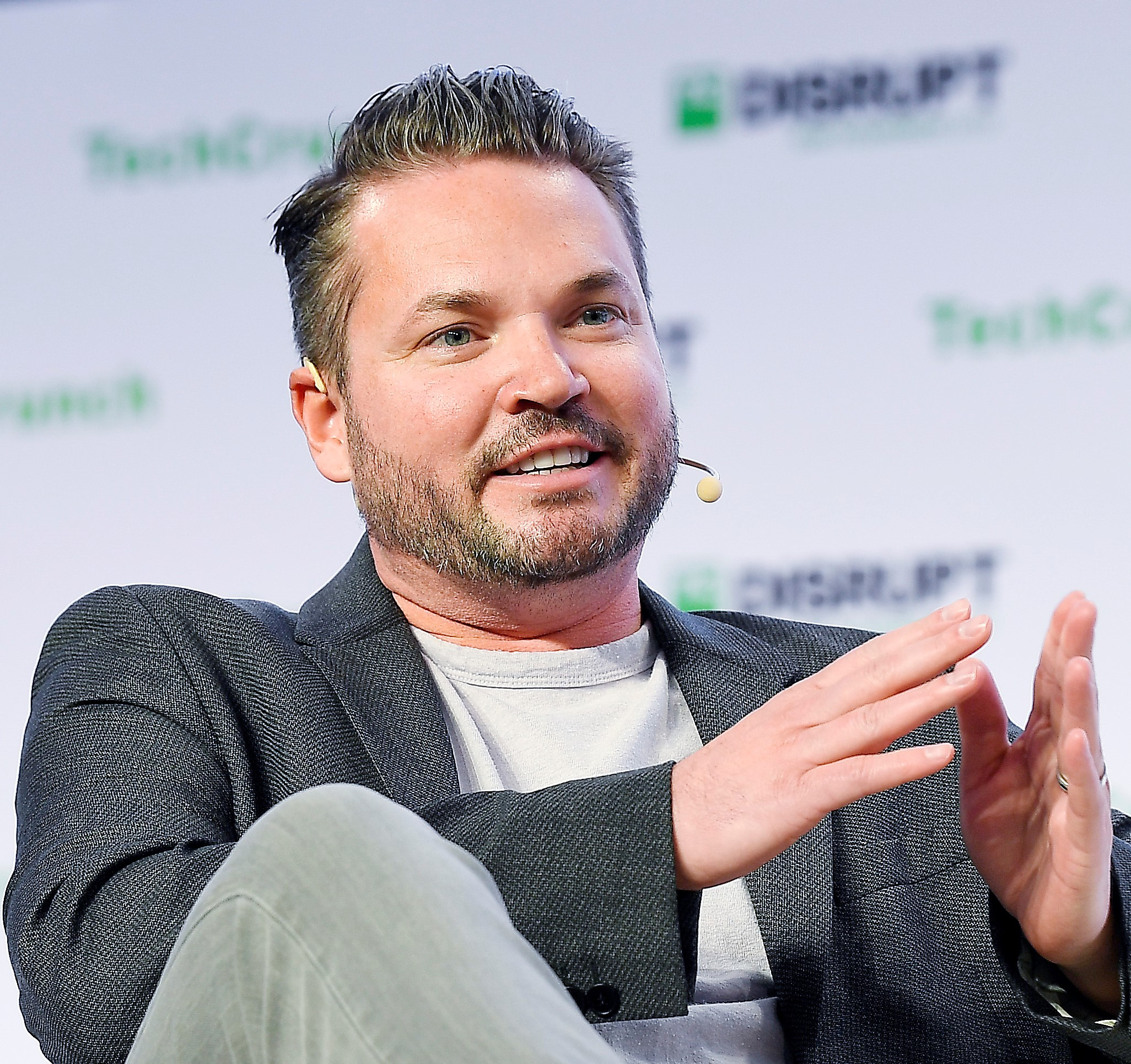 SAN FRANCISCO, CALIFORNIA - OCTOBER 03: Bird Founder & CEO Travis VanderZanden speaks onstage during TechCrunch Disrupt San Francisco 2019 at Moscone Convention Center on October 03, 2019 in San Francisco, California. (Photo by Steve Jennings/Getty Images for TechCrunch)